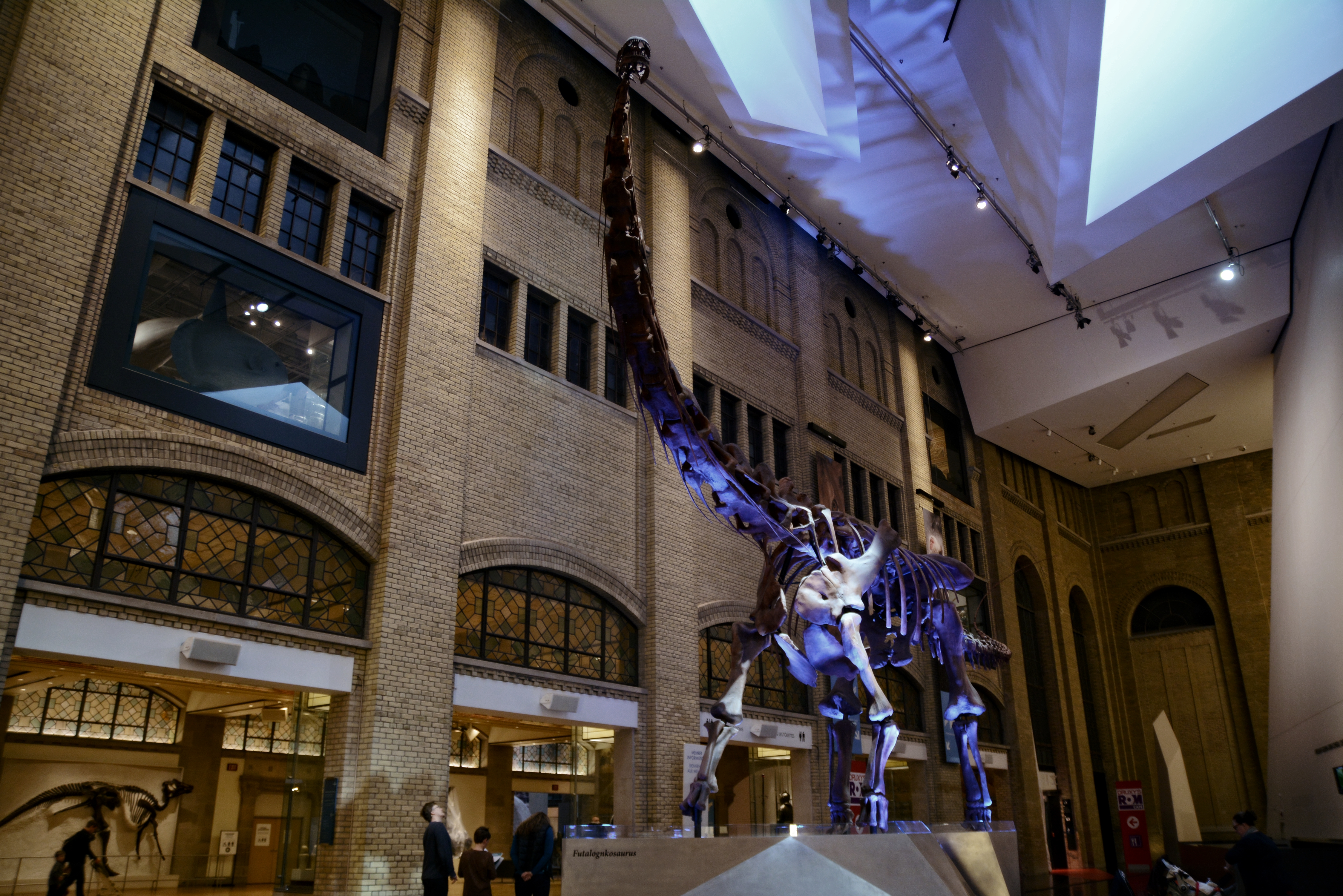 Hyacinth Gloria Chen Crystal Court is a three-storey high atrium inside The Crystal.